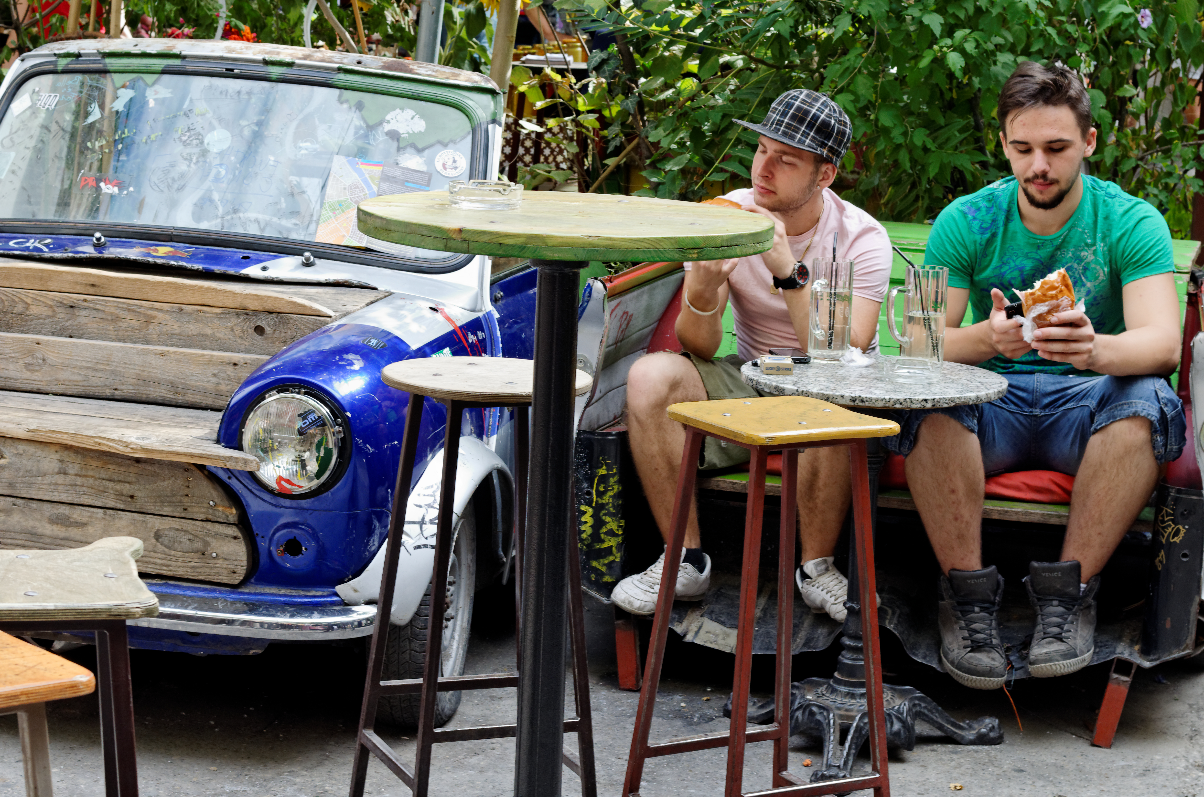 Young people having a drink in Szimpla Kert/Garden, a ruin pub in Budapest Hungary